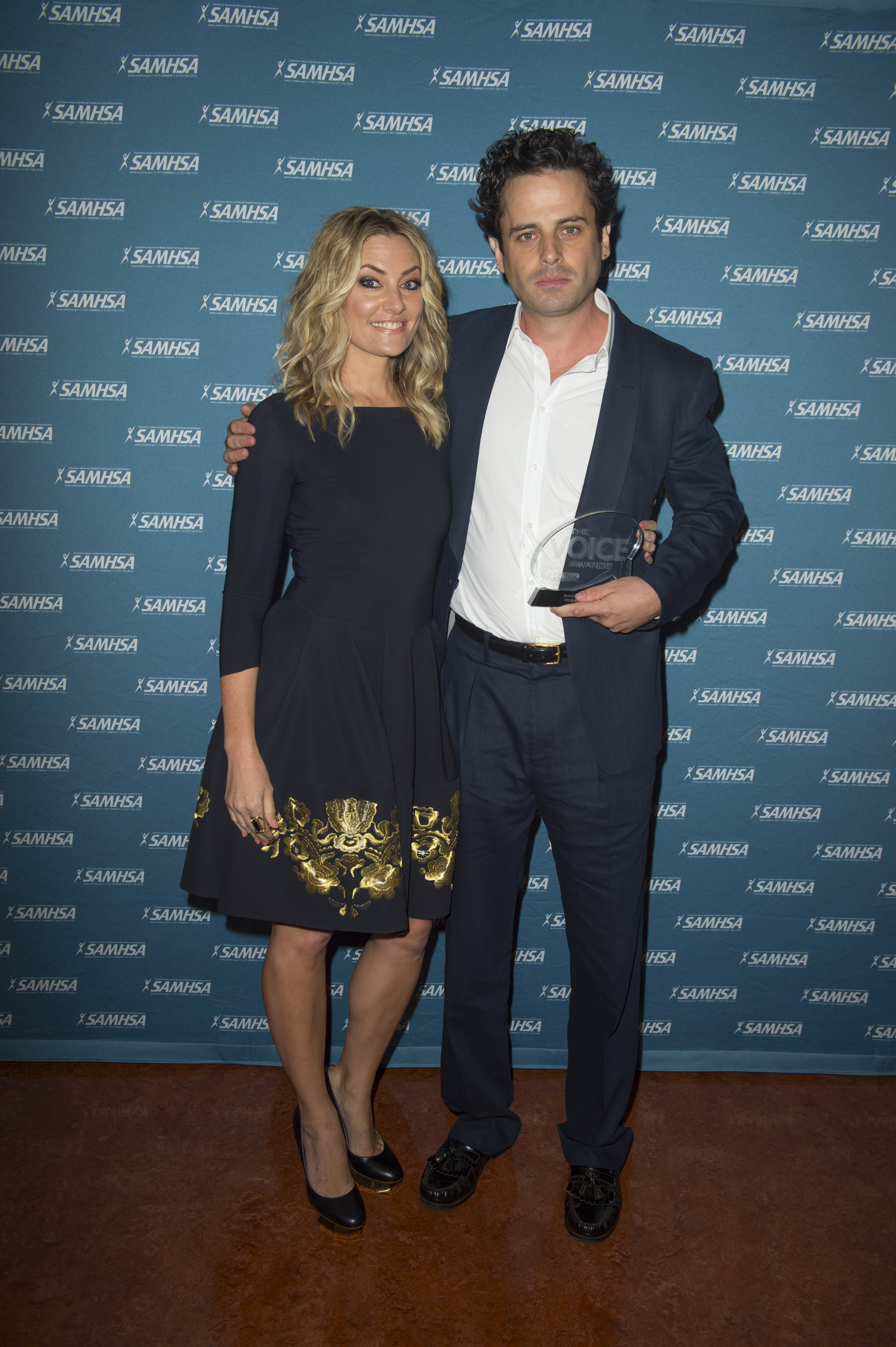 Luke Kirby with presenter Mädchen Amick after accepting a 2016 Voice Award on behalf of the film Touched with Fire.